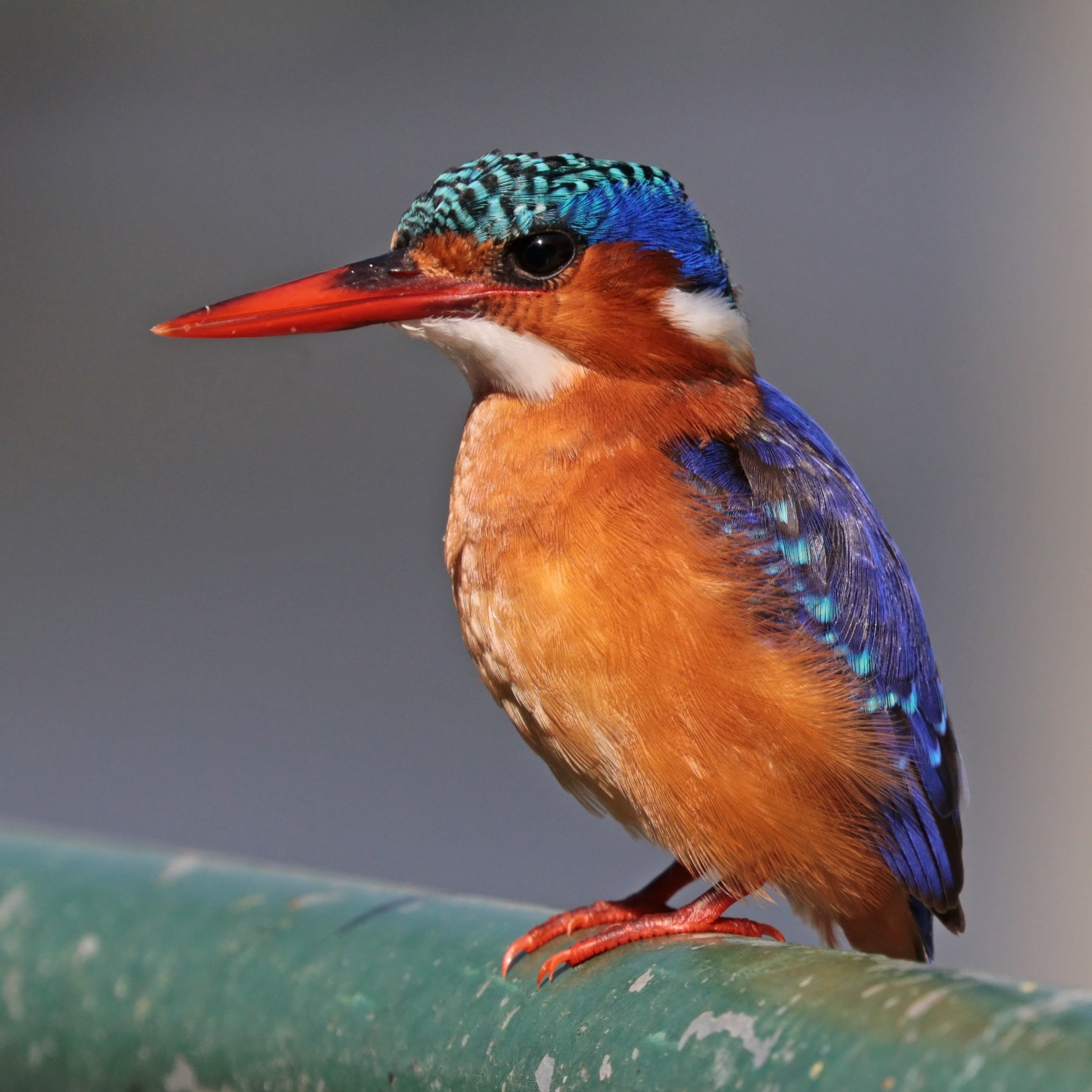 Malachite kingfisher (Corythornis cristatus stuartkeithi), Lake Awassa, Ethiopia